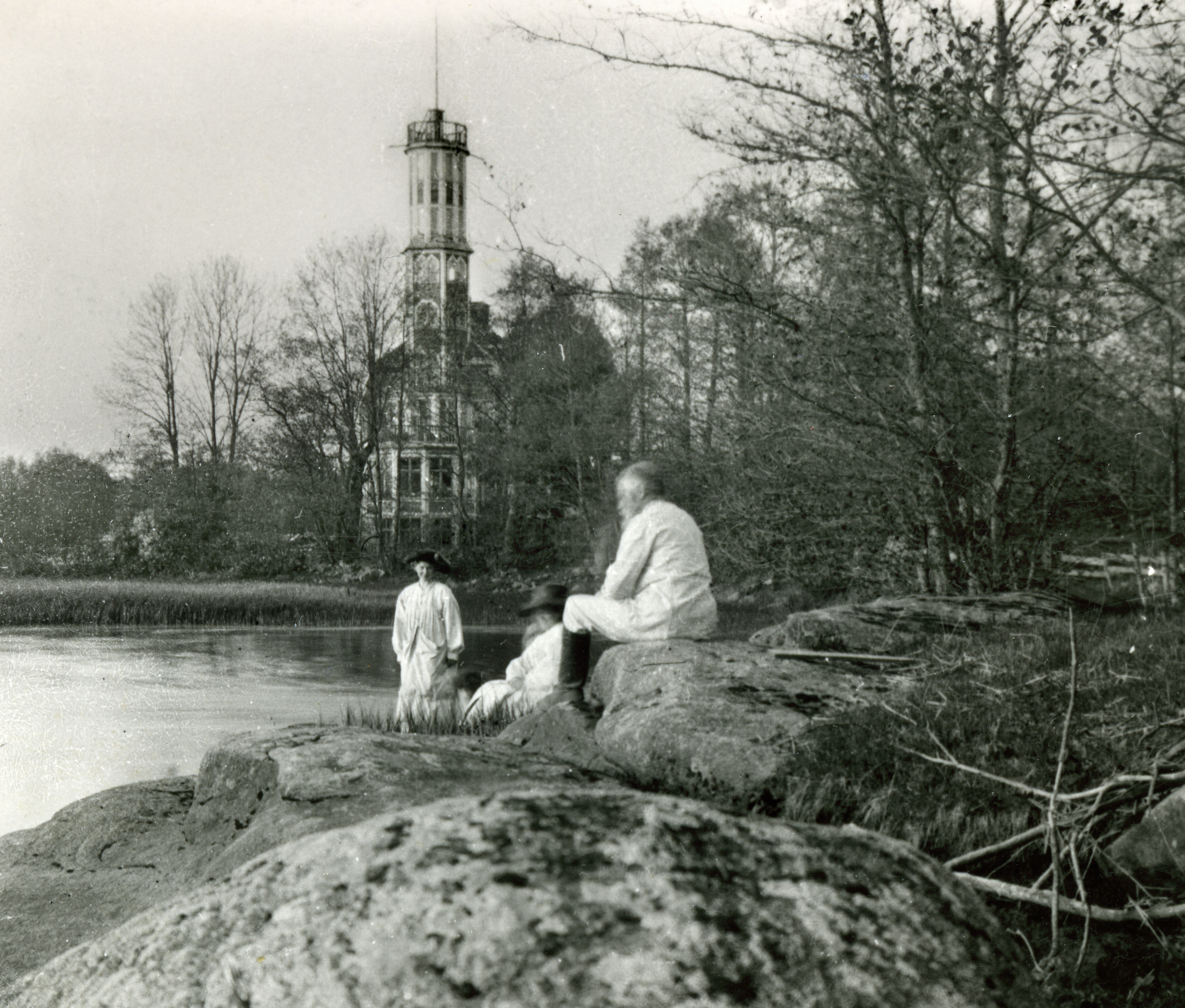 Gullåkra at the river Lidan i the south part of Trävattna parish, Vilske hundred, Falköping municipality, former Skaraborg county, Västergötland, Västra Götaland county, Sweden. The man sitting in the middle of the photo is the owner Captain Erik Stenholm. The eccentric house in the background was built by Stenholm in 1907-1909. The house burned down at 11 November 1935. The water to the left is the river Lidan. The photo was taken by Gustav Johansson at Veken. Scanned and retouched by Gunnar Creutz.